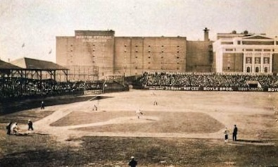 The ballpark was last used in 1911, so the picture cannot be any newer than that.